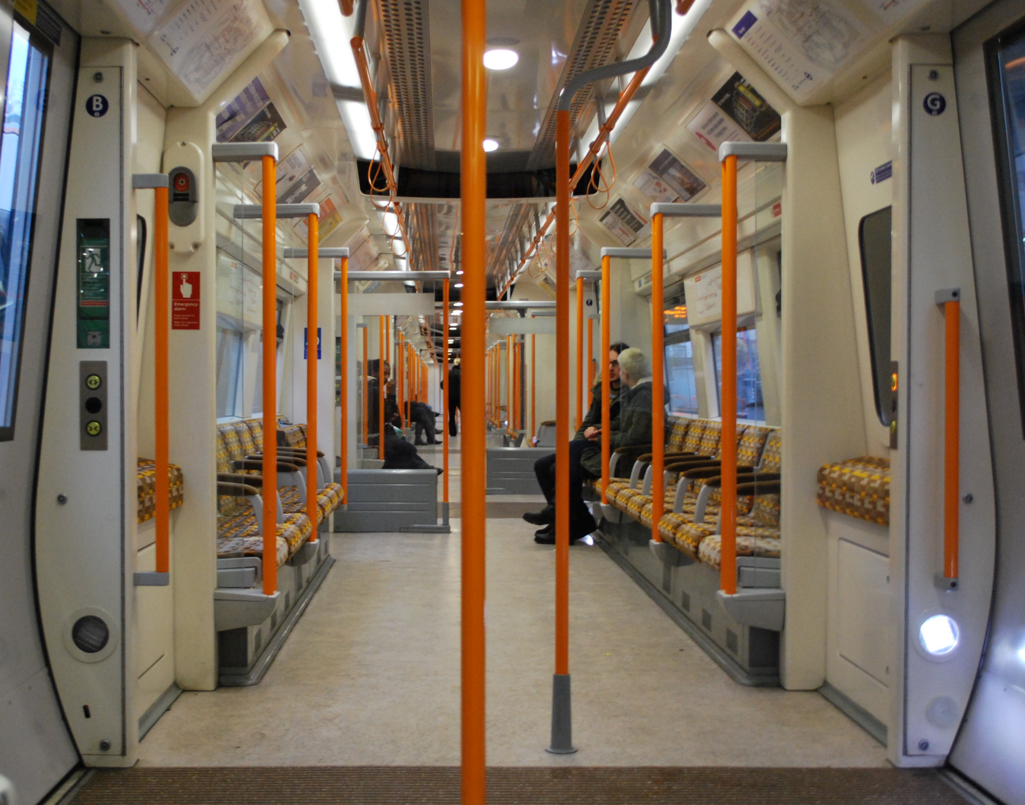 I took this photo with my own camera.